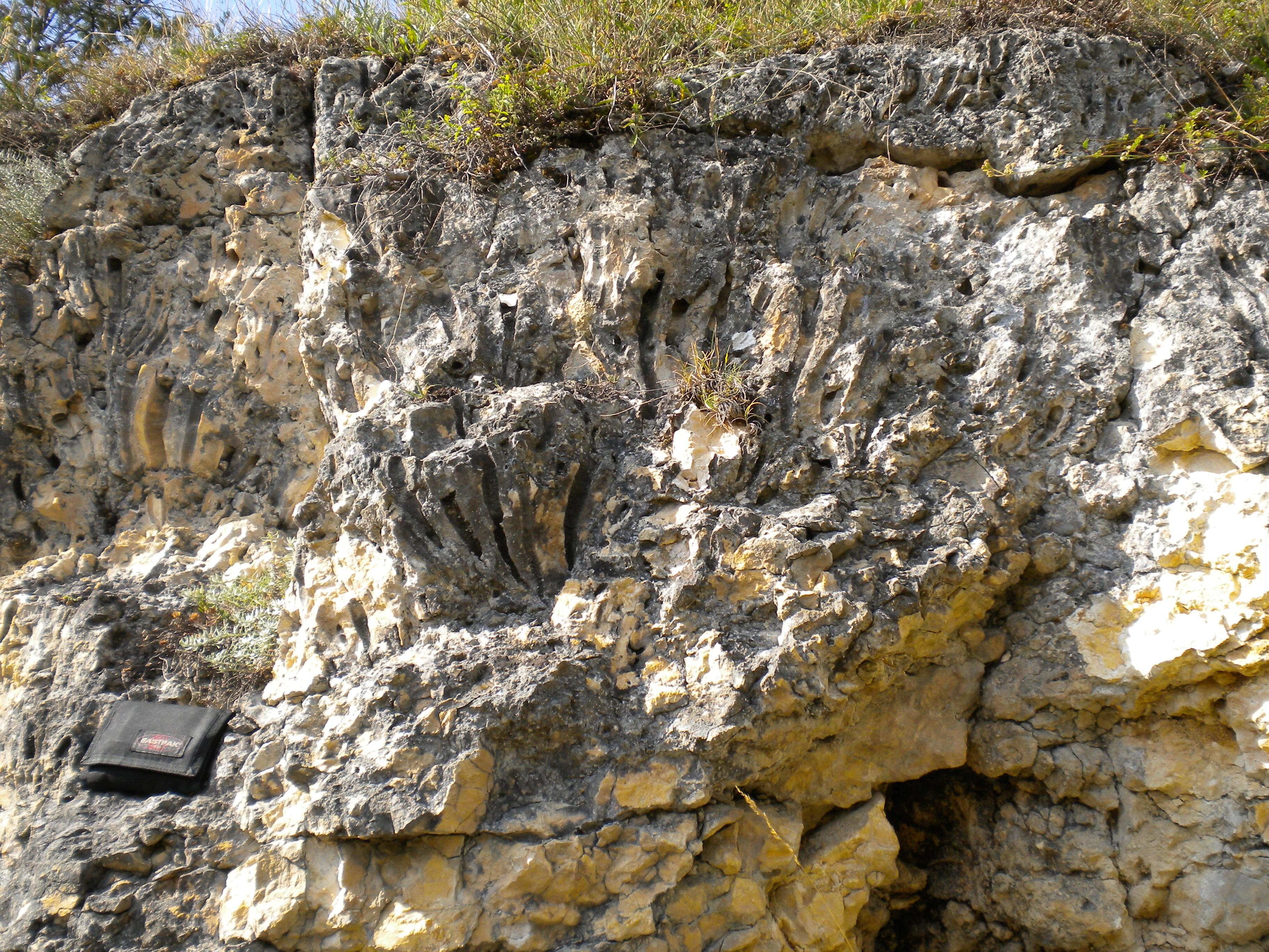 A rudist biostrome in the Angoulême Formation of the Angoumian (group), Turonian. Picture taken in the Aucors quarry near Beaussac, Dordogne, France.